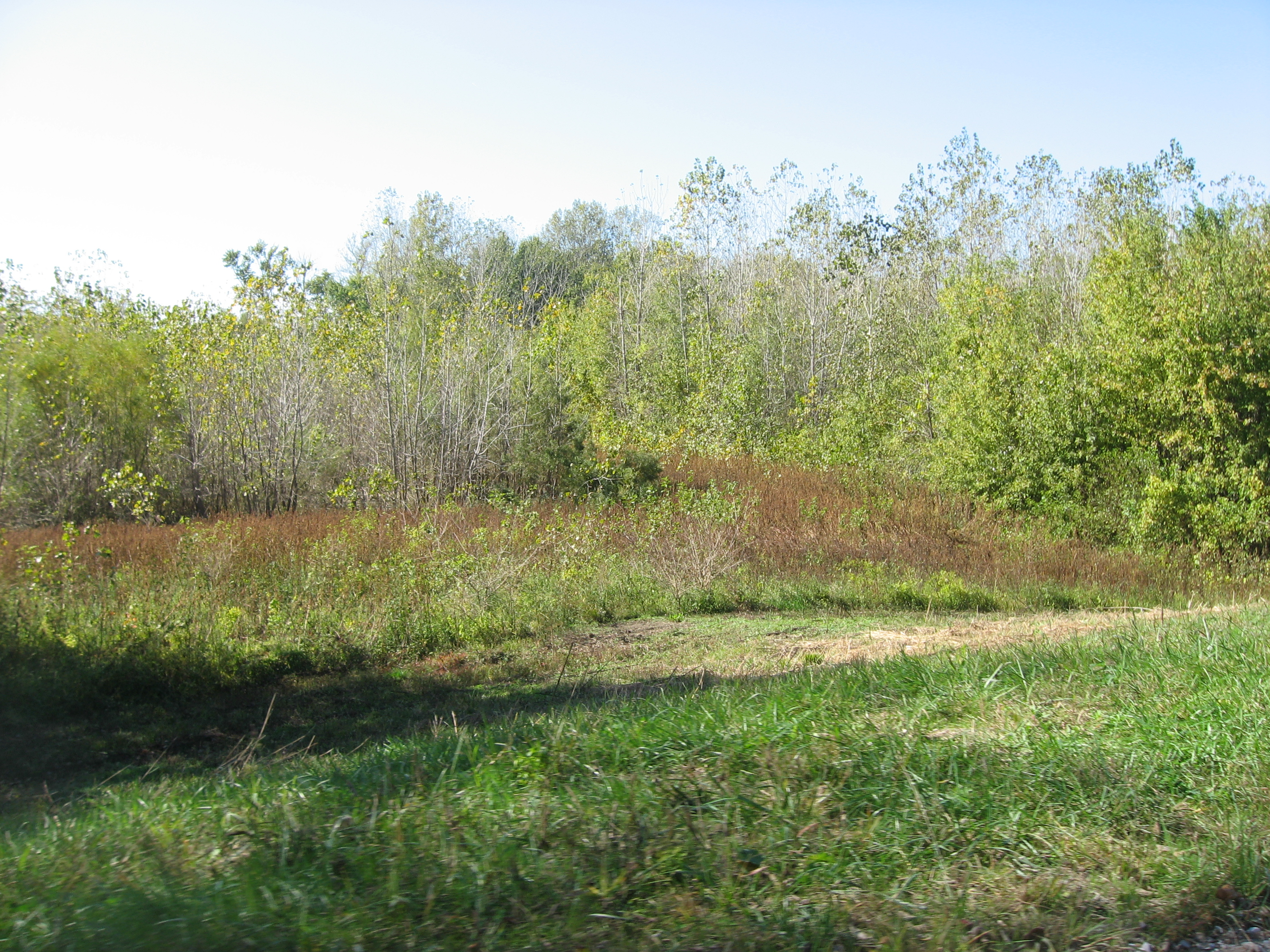 Fields at the Daugherty-Monroe Archaeological Site, located off of Levee Road northwest of Sullivan in Turman Township, Sullivan County, Indiana, United States. As a valuable archaeological site, it is listed on the National Register of Historic Places.